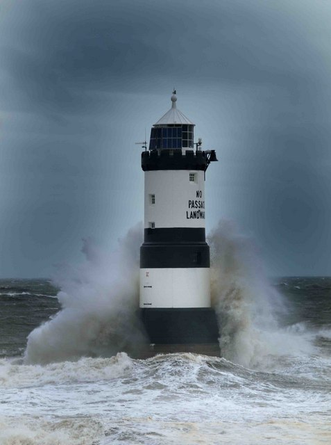 Trwyn Du lighthouse in stormy seas. Compare with my last visit in April 2007 514047.